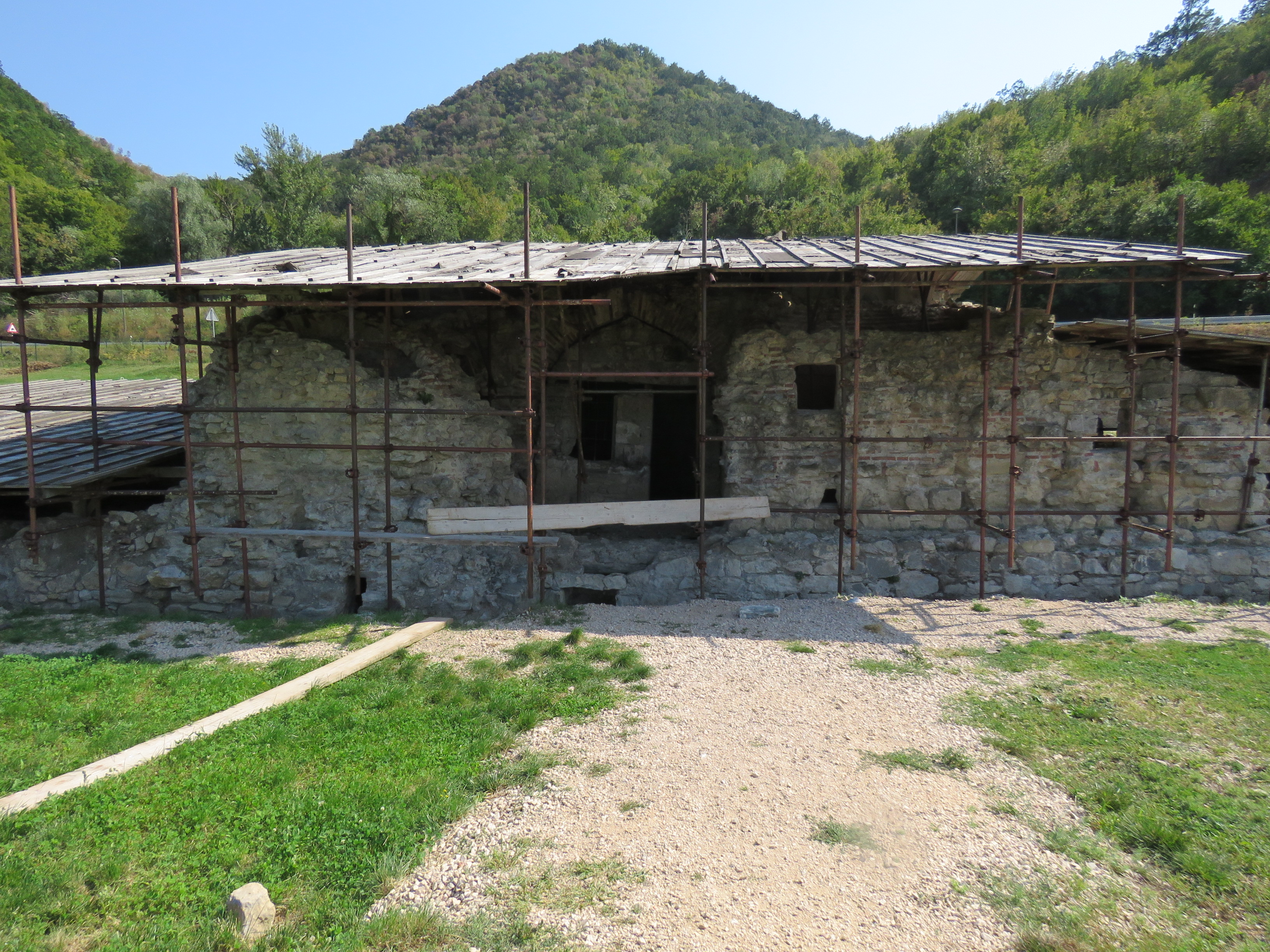 Within the works on the revitalization of the Golubac fortress, from the beginning of September to the beginning of December 2014, archaeological research was carried out in the area of ​​the Turkish hamam, located near the Western part of the fortress. By unknown reason, the order of Prince Miloš to destroy the hamam was not realized. When Felix Kanic passed through Golubac in 1859, he noted that the dome of the sumptuous building had fallen apart, but that the water and heating pipes, with minimal costs, would be able to be re-used. During the second half of the 20th century, the hamam chambers served as an explosive storage facility for the PIM company, and for this reason, the hammam was reinforced with concrete plates. The first mentioning of the hamam in front of the Golubac fortress is found in the 17th century Turkish traveler and writer, Evliya Celebi, in his work "Seyahatname". Celebi informs us that Koca Mahmud-pasha, during the rule of Sultan Mehmed II the Conqueror (1451-1481), in August of 1458 conquered the Golubac fortress and soon after that he built his endowments, hamam and mosque. The discovered hamam belongs to the order of male hamams, since it was intended primarily for men. It was built of quarried stone and bricks. The hamam rooms were covered with calotas and semicolons that had holes with the function of a skylight. Water in hamam was supplied with ceramic tubes from a nearby spring located 200m south of the building. Below the floor level is a hypocast. The Golubac hamam has nine rooms: a chaplain or a waiting room, a warm room for a rest after a bath or a waiting room in the winter, a lounge-lobby of the bathing rooms, halates-two identical rooms for warm and cold bathing, a khazneh - water tank, or a furnace.